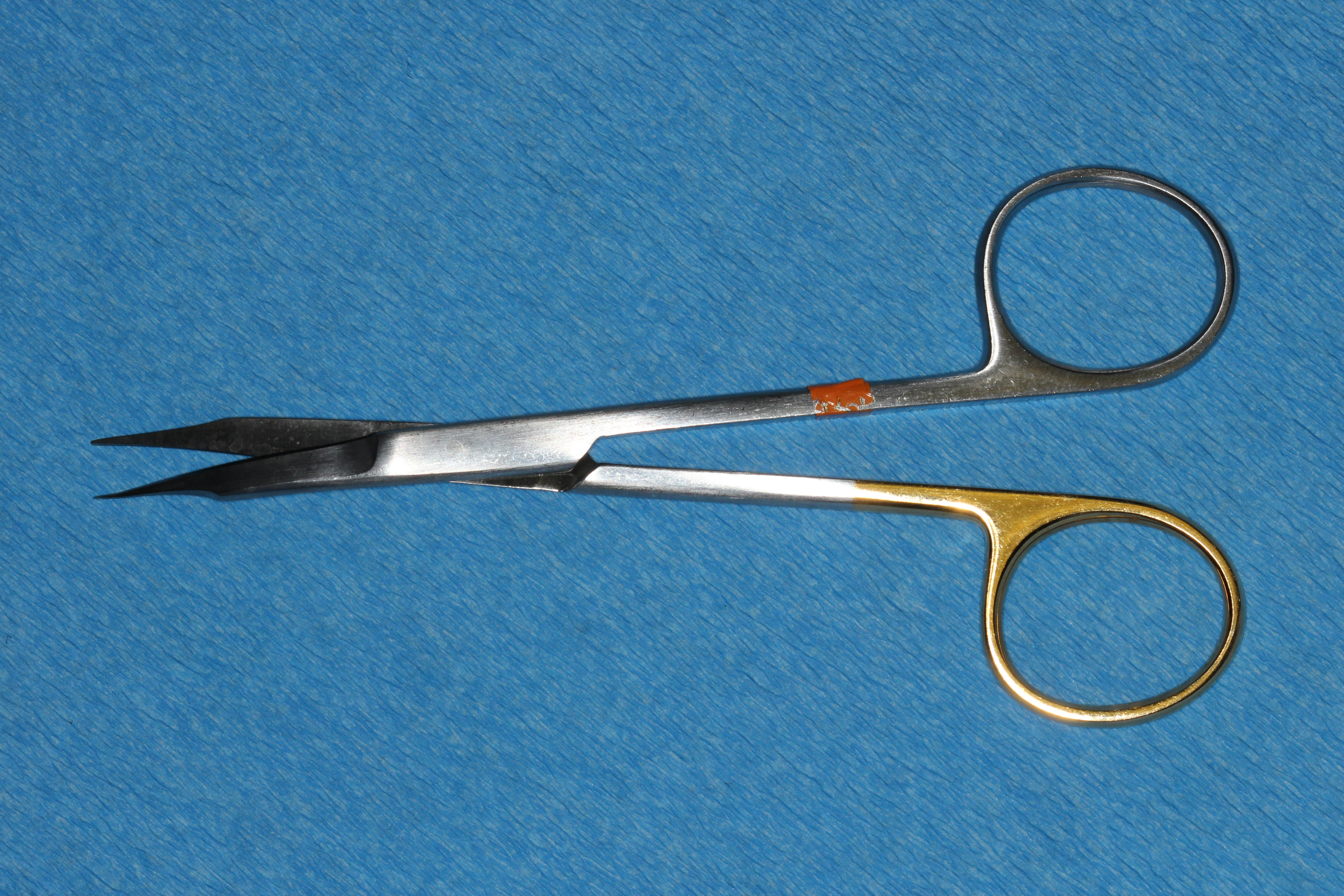 top down pictures of surgical tenotomy scissors